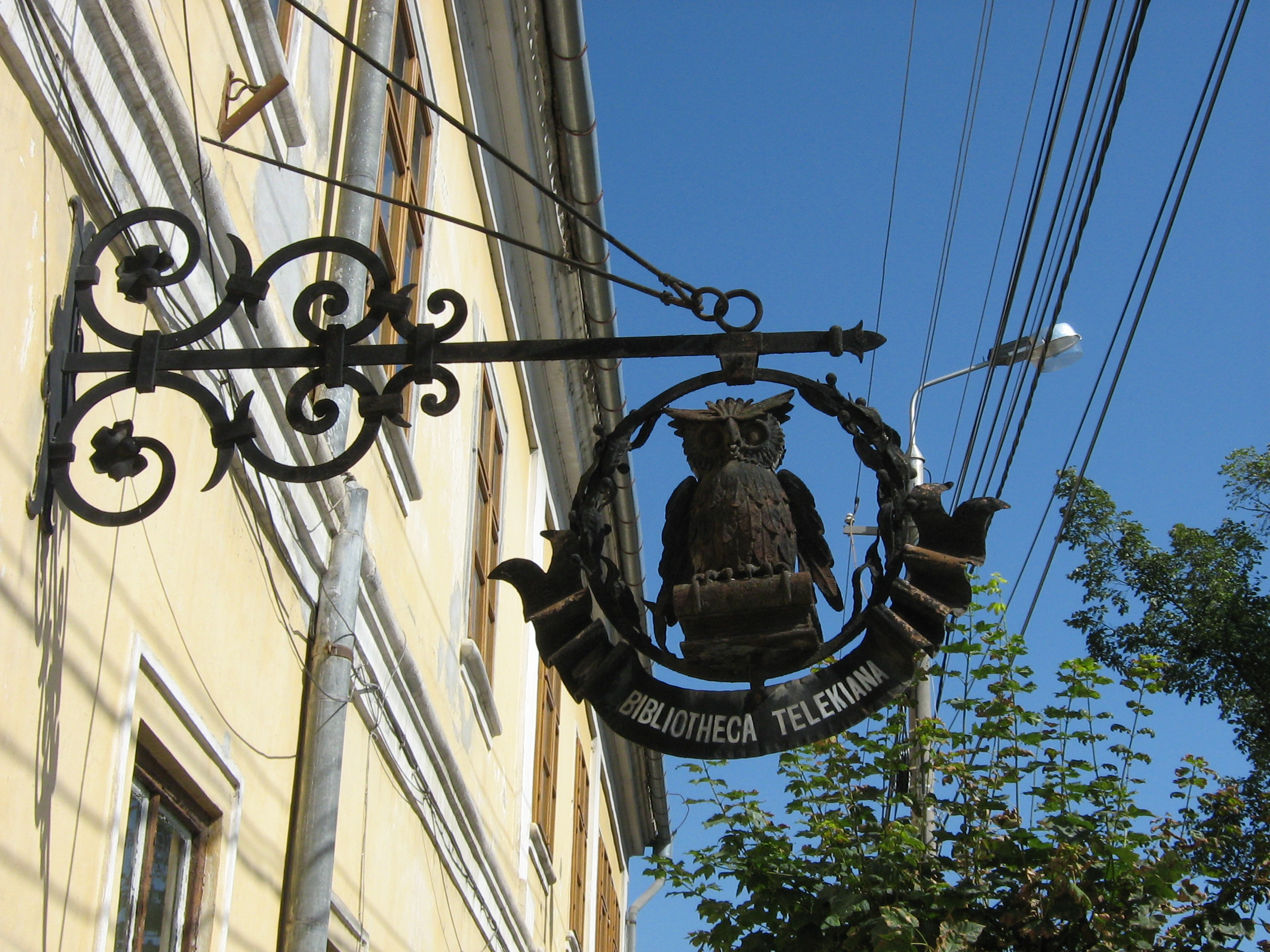 A Teleki Library in Targu Mures